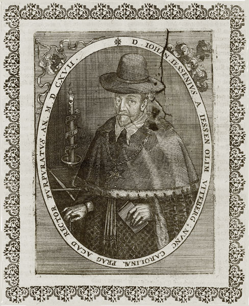 Jan Jessenius, Theatrum Europaeum